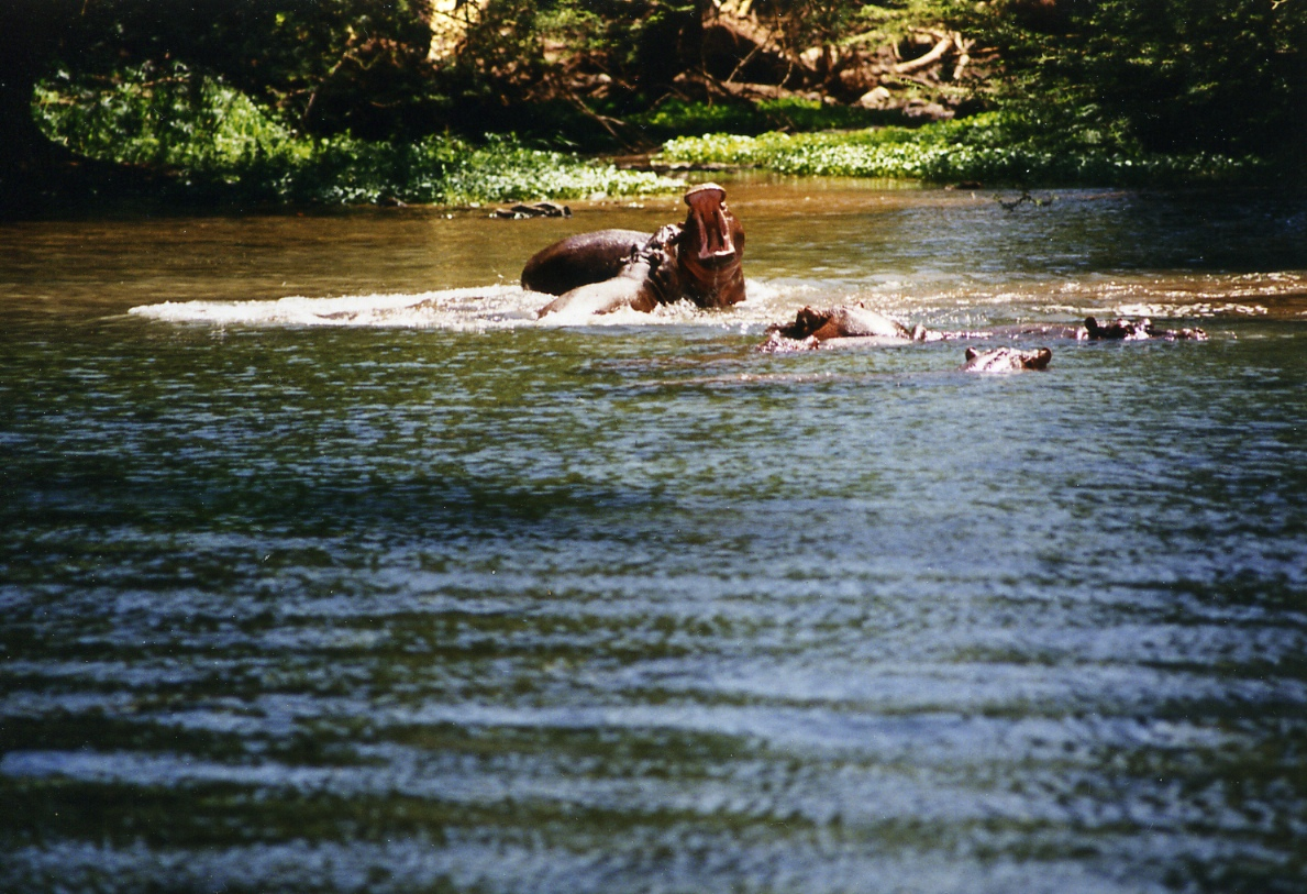 Tsavo-West-Mzima-Kenia